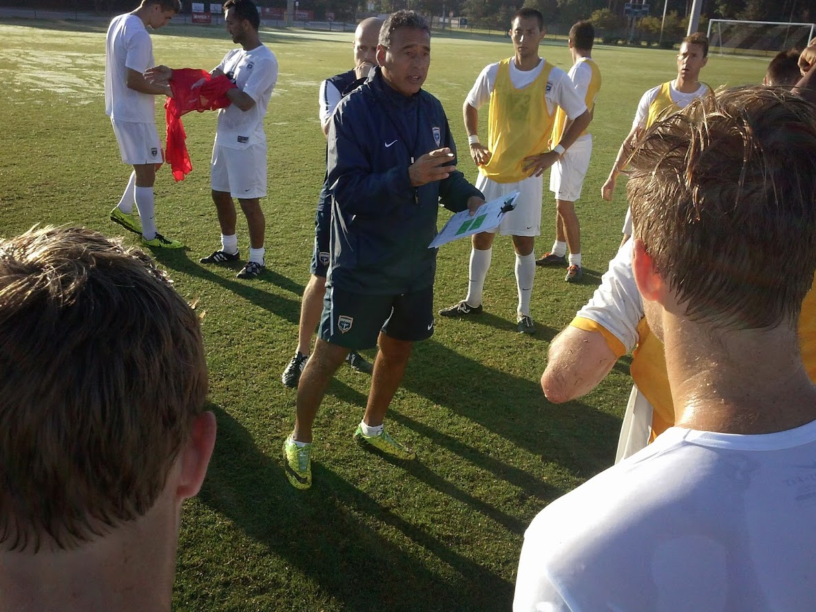 This is an Image of Coach Villarreal coaching at the development camps.